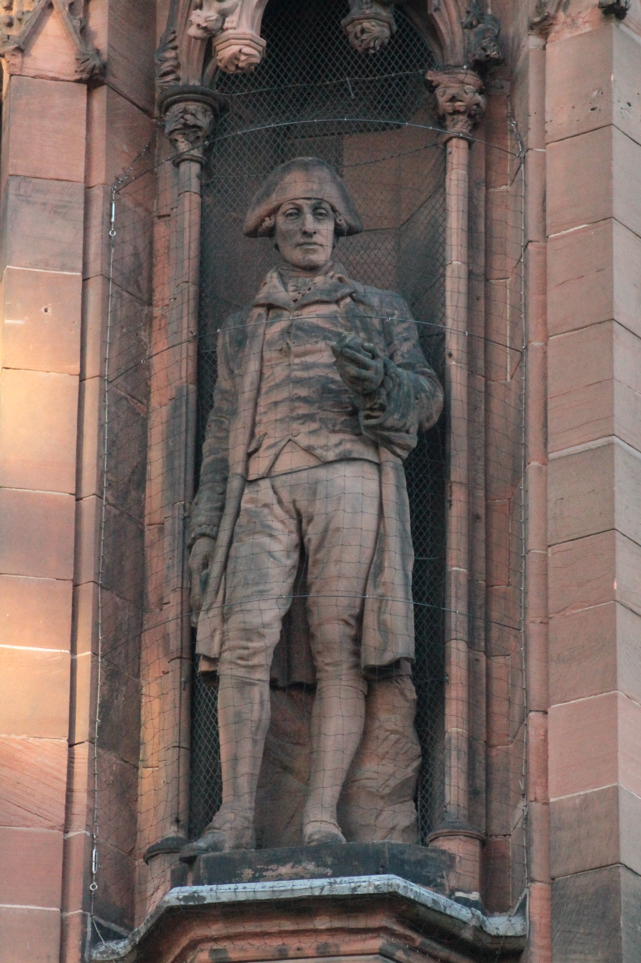 Statue of James Hutton, Scottish National Portrait Gallery